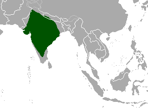 Range map of the nilgai (Boselaphus tragocamelus)